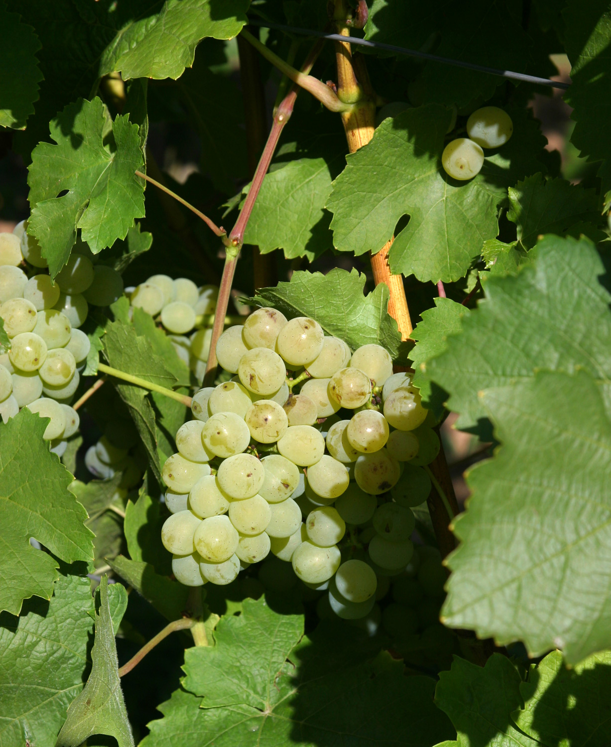 Leafs and grapes of the white grape variety Kanzler.